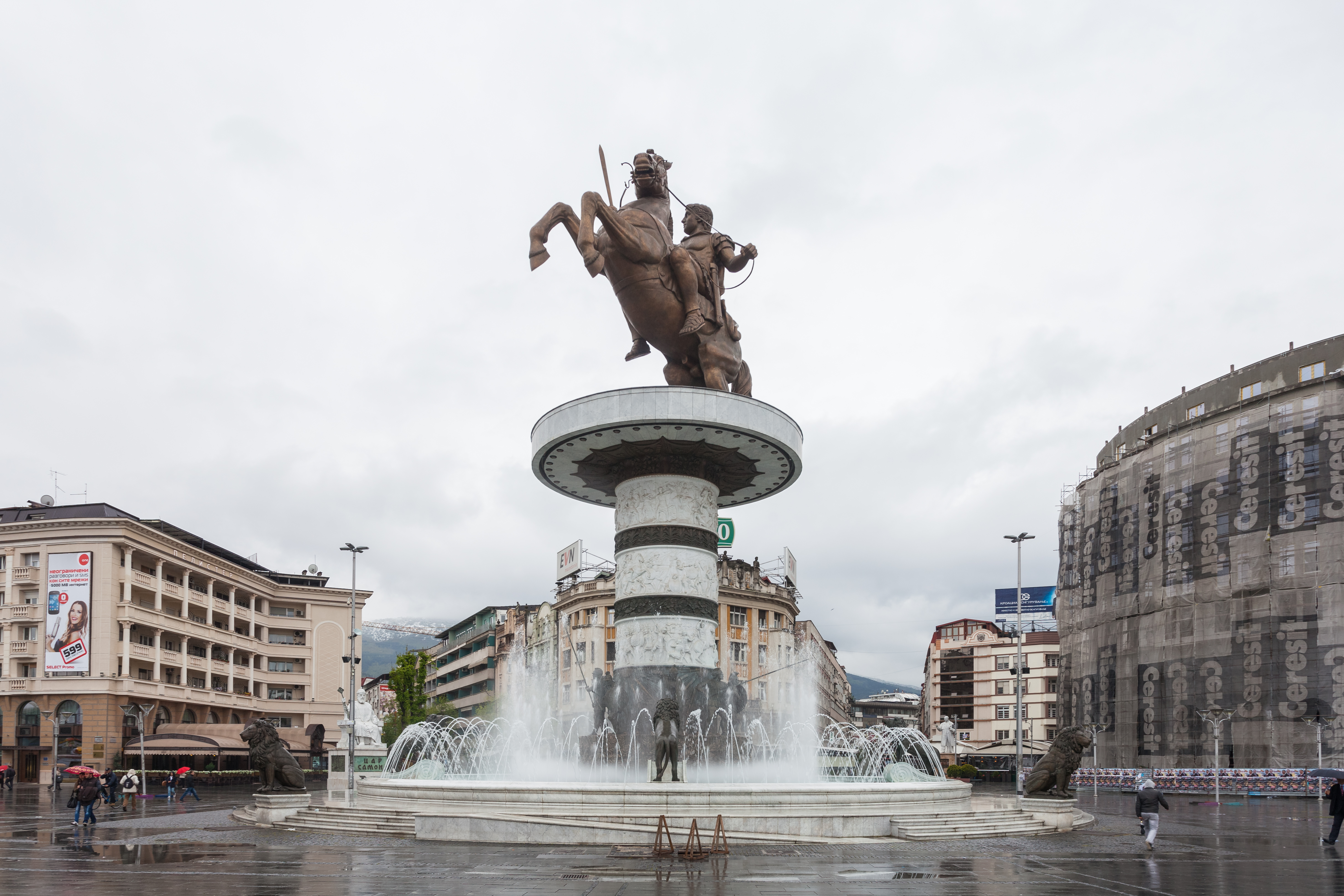 Warrior on Horseback, Skopje, Macedonia